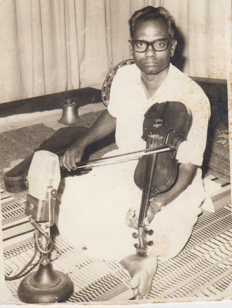 malladi venkata satyanarayana rao vizag radio concert